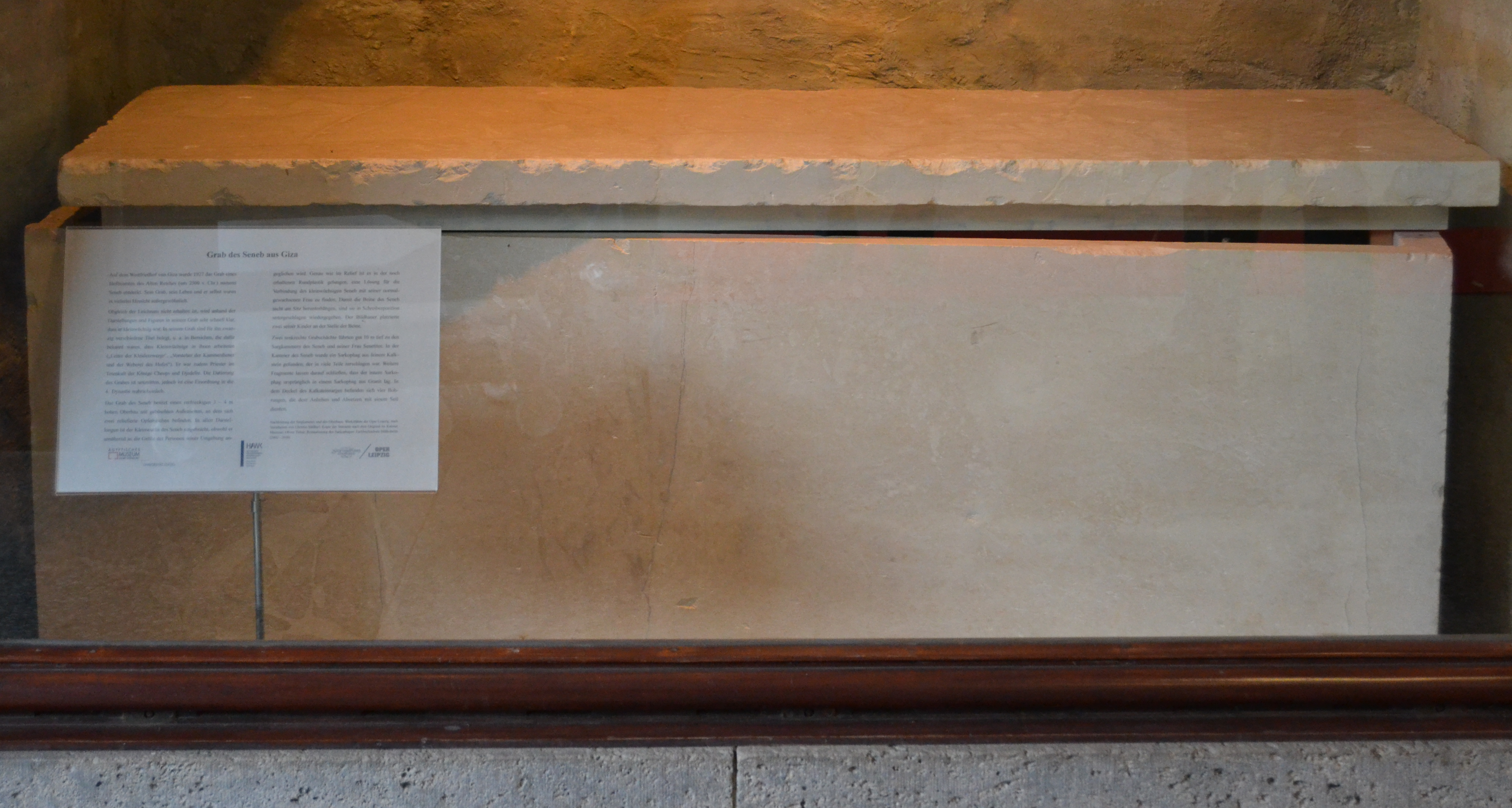 Sarcophagus of Seneb, Gizeh, 4th Dynasty, Ägyptisches Museum der Universität Leipzig